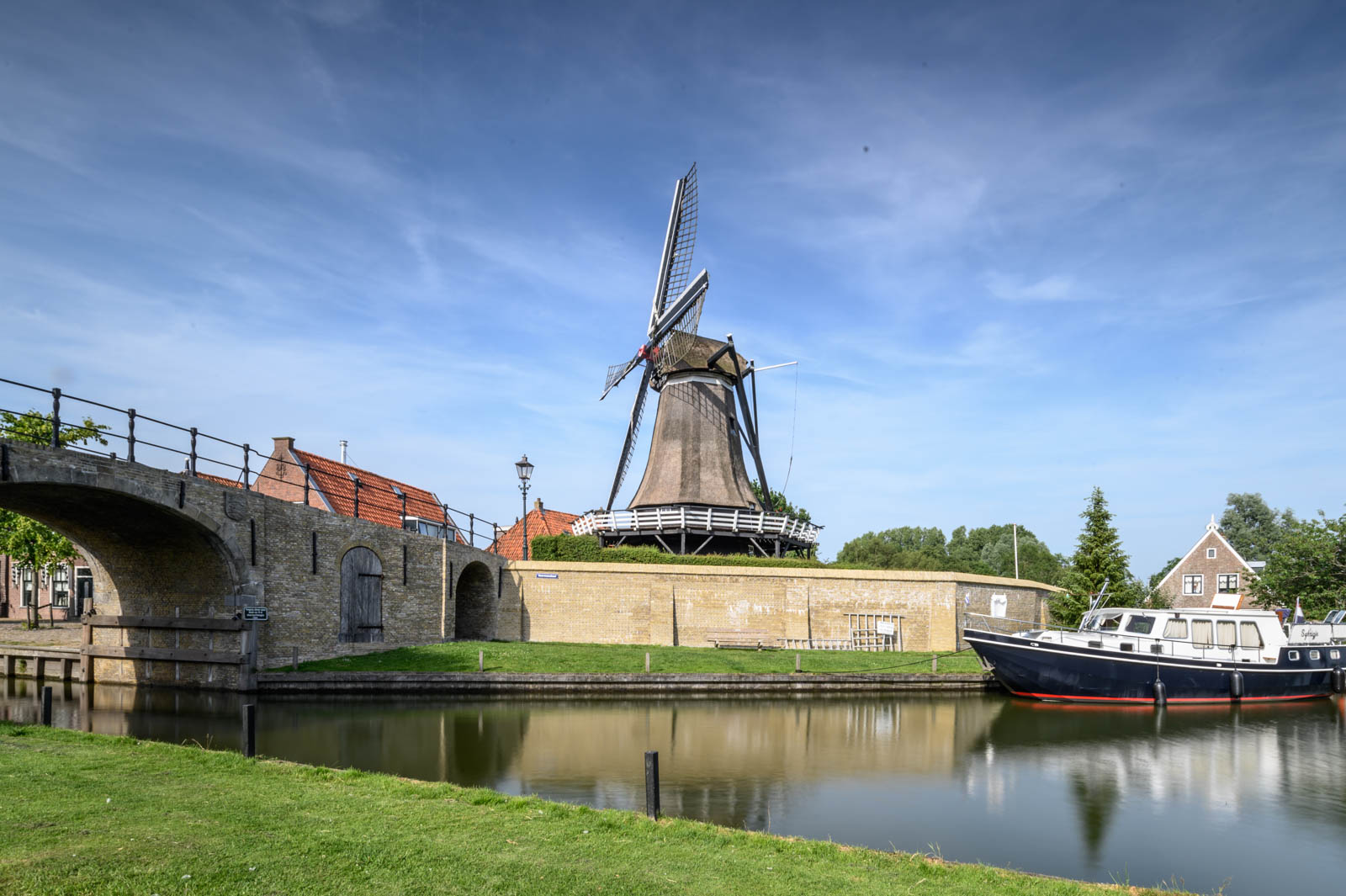 Mill "De Kaai" in Sloten, The Netherlands